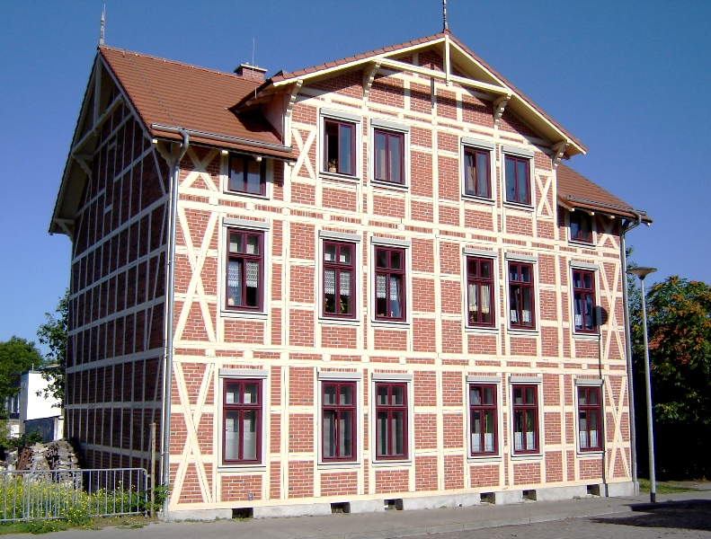 Old house in Magdeburg-Cracau (Germany)